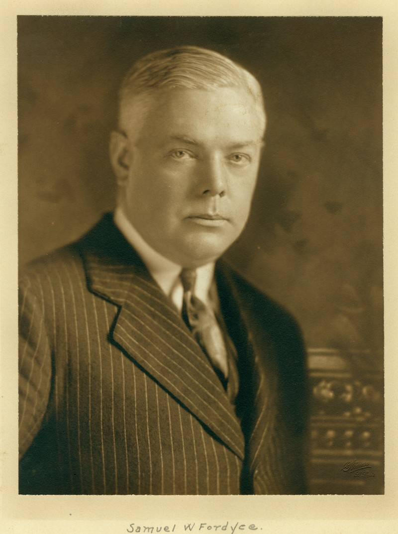 Fordyce, Samuel W. (1877-1948).